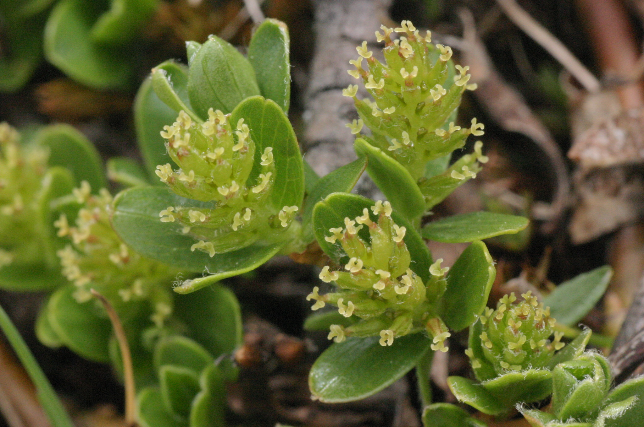 Salix retusa